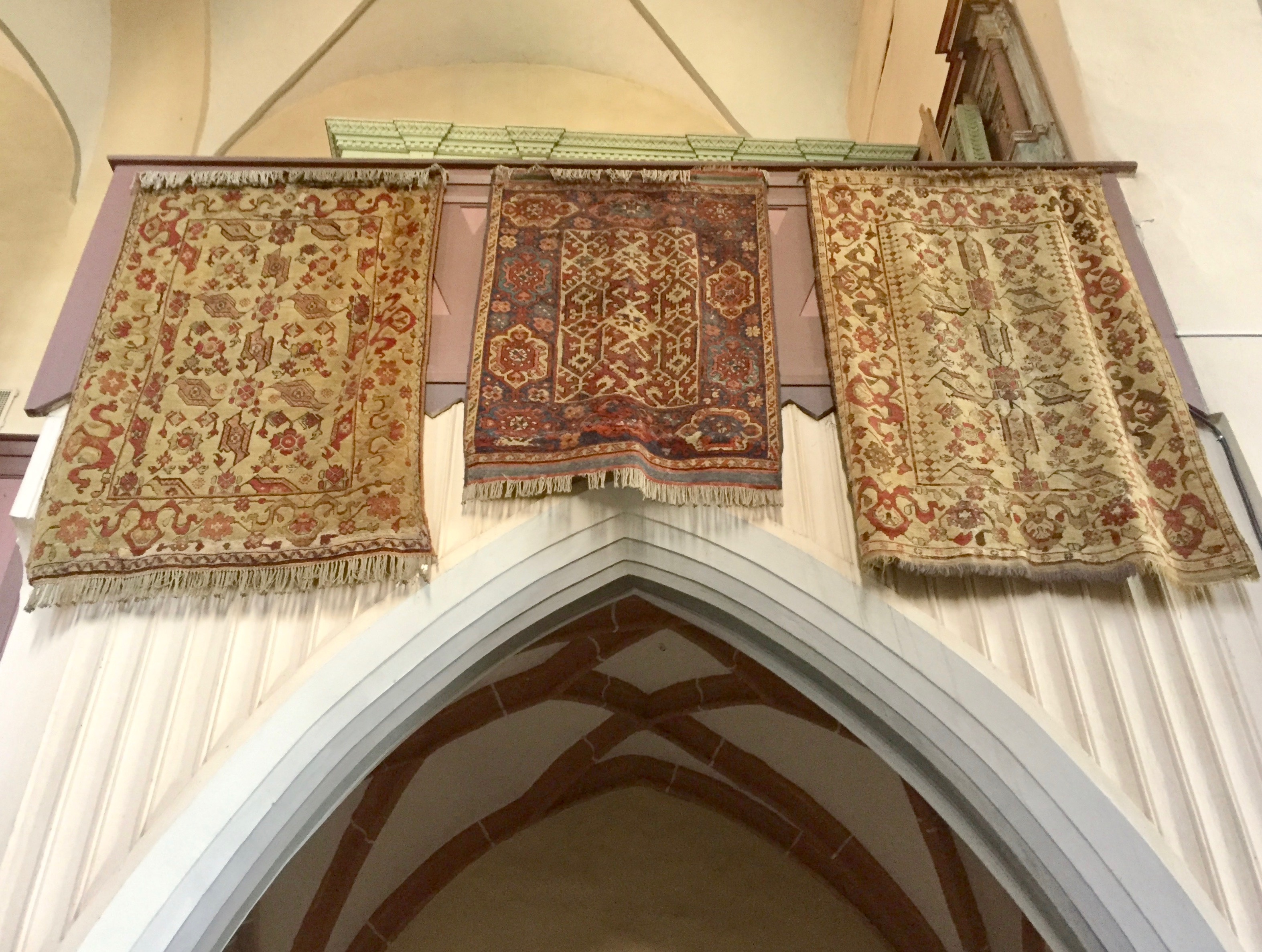 Anatolian rugs from the Early Modern period have survived in Transylvanian churches. Hence they are known as "Transylvanian rugs". Amongst these are the so-called White-ground or Selendi, and Lotto rugs. Two White-ground rugs and one Lotto rug (center). Monastery Church of Sighișoara, Romania. Northern wall of the nave, 2017.